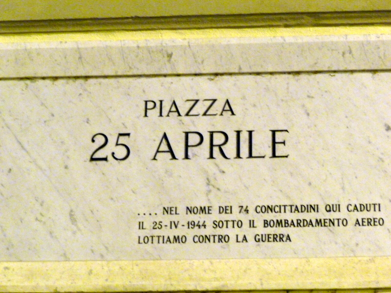 Umbertide, perugia, Italy, 25 April 1944 bombing commemorative plate